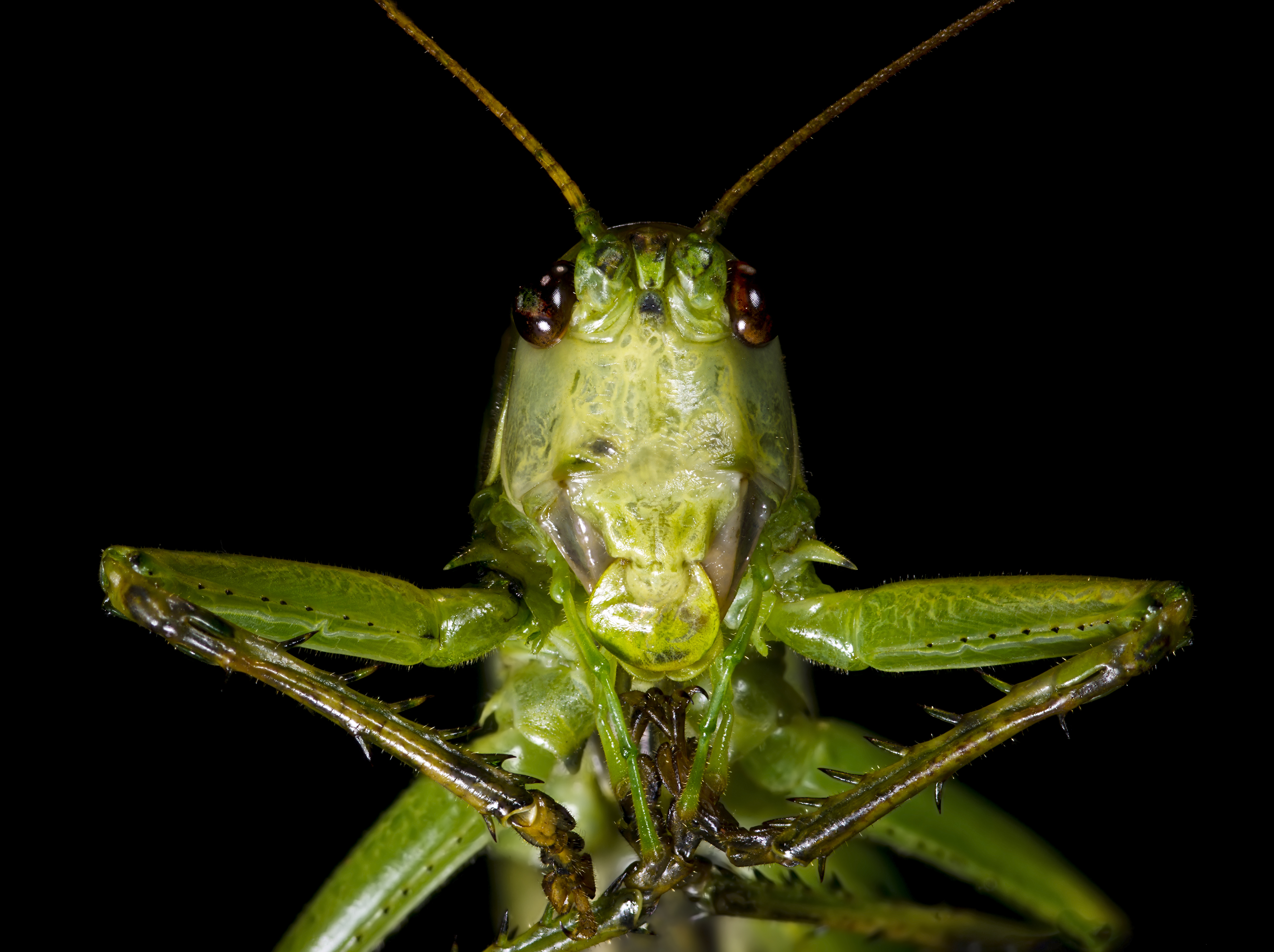 Great Green Bush Cricket (Tettigonia viridissima Linnaeus, 1758) – portrait